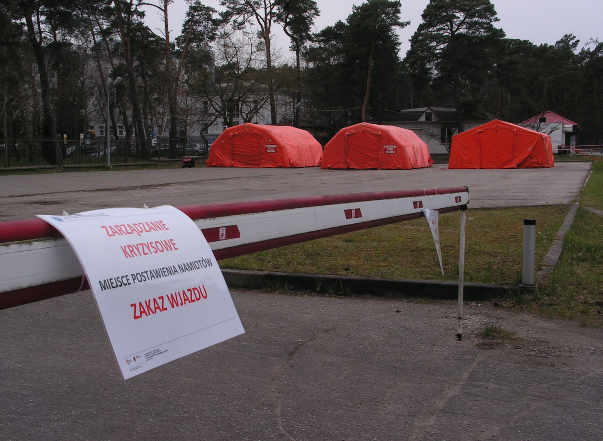 Tents in front of Wojewódzki Szpital Specjalistyczny (Voivodeship Specialist Hospital), named after Jerzy Popiełuszko, in Włocławek, for examining patients suspected of SARS-CoV-2 infection.